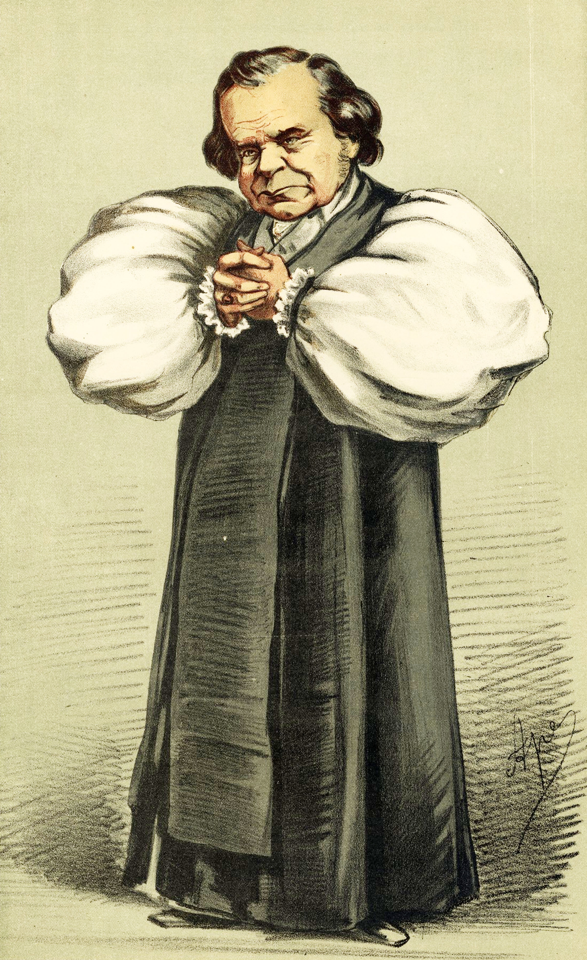 Caricature of Samuel Wilberforce - "Not A Brawler".